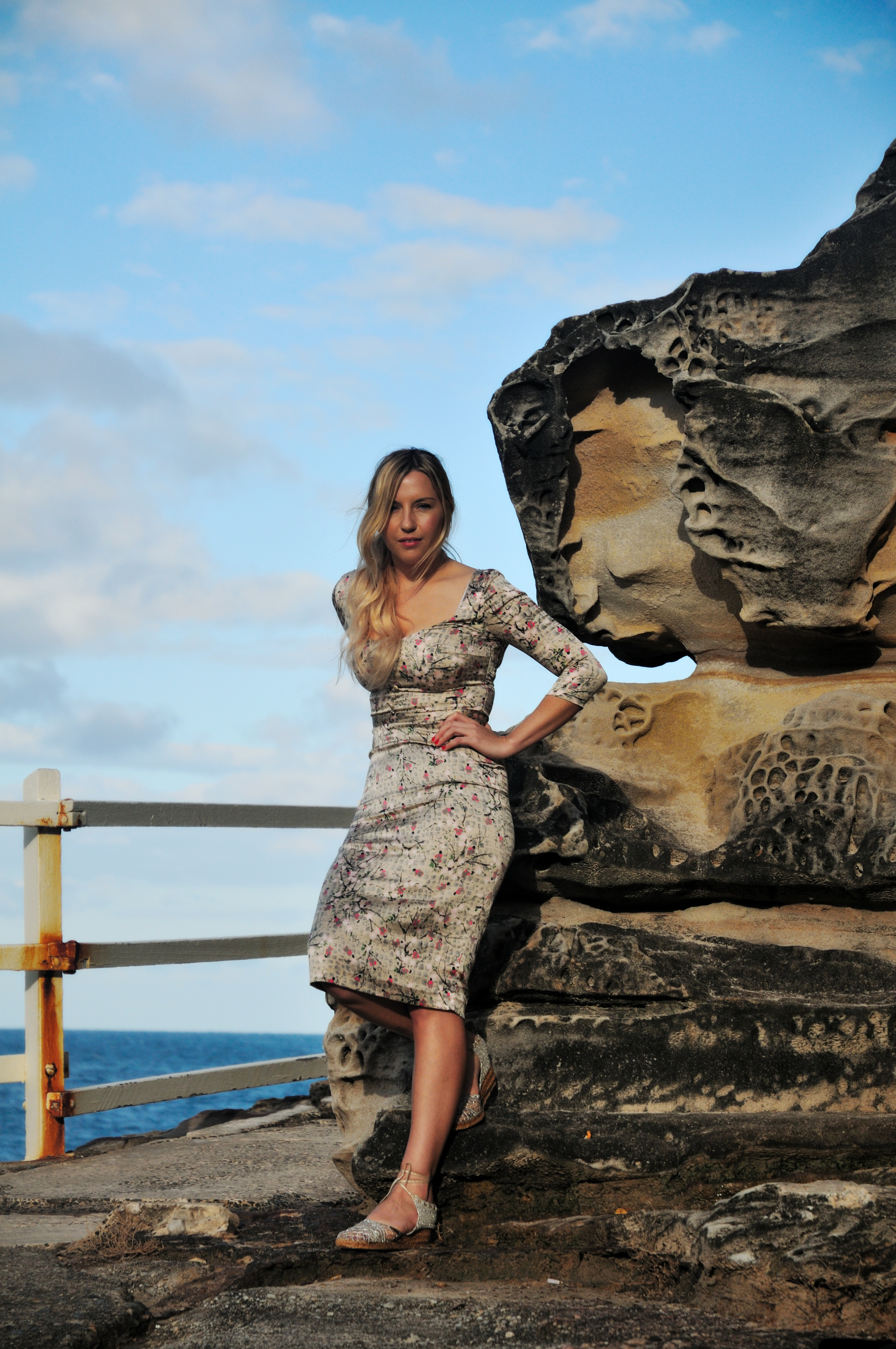 Australian Actress Anya Beyersdorf